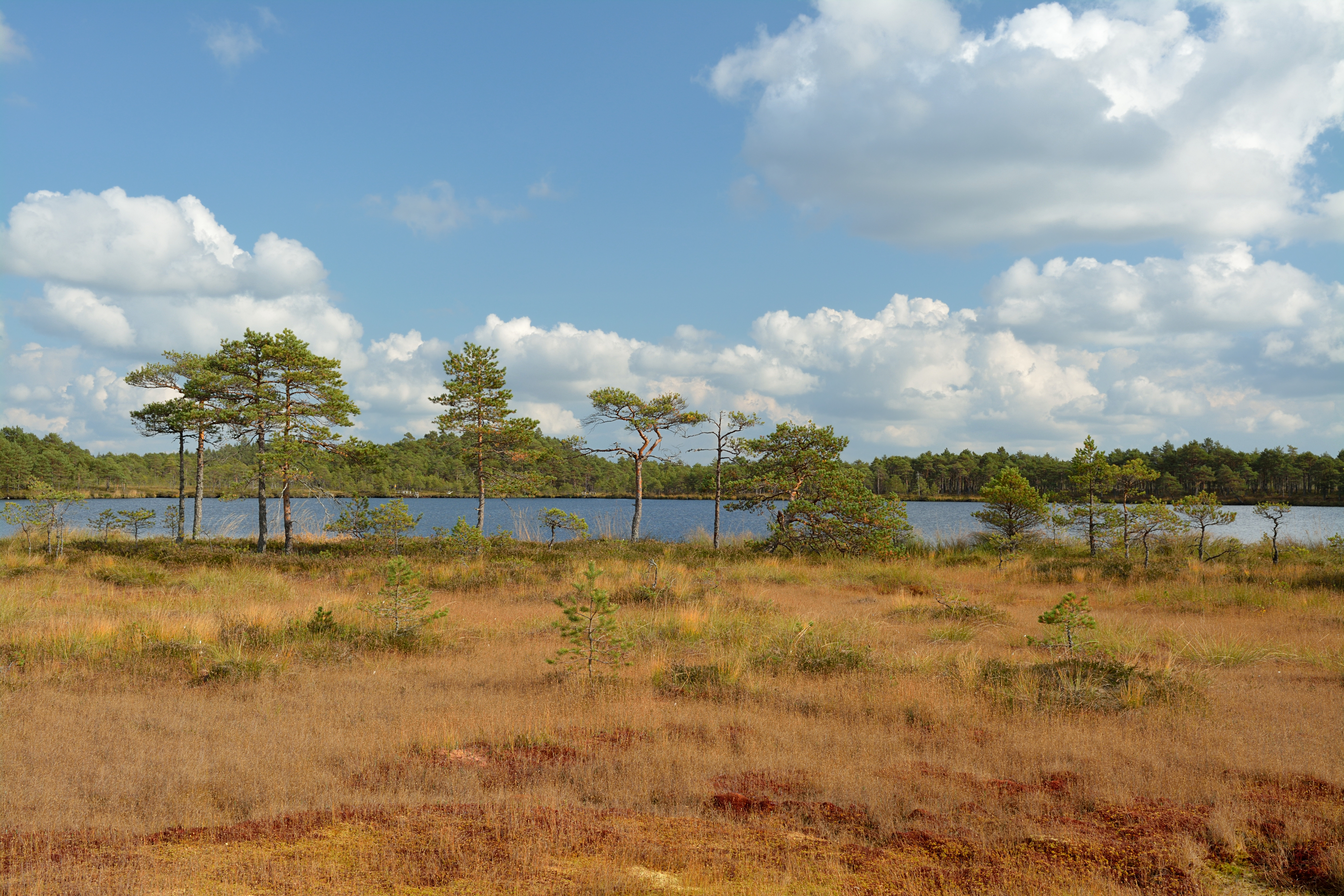 Öördi bog, Soomaa National Park, South-Estonia.